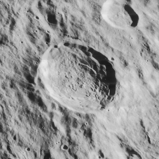 Oblique view of Baade, on the moon.